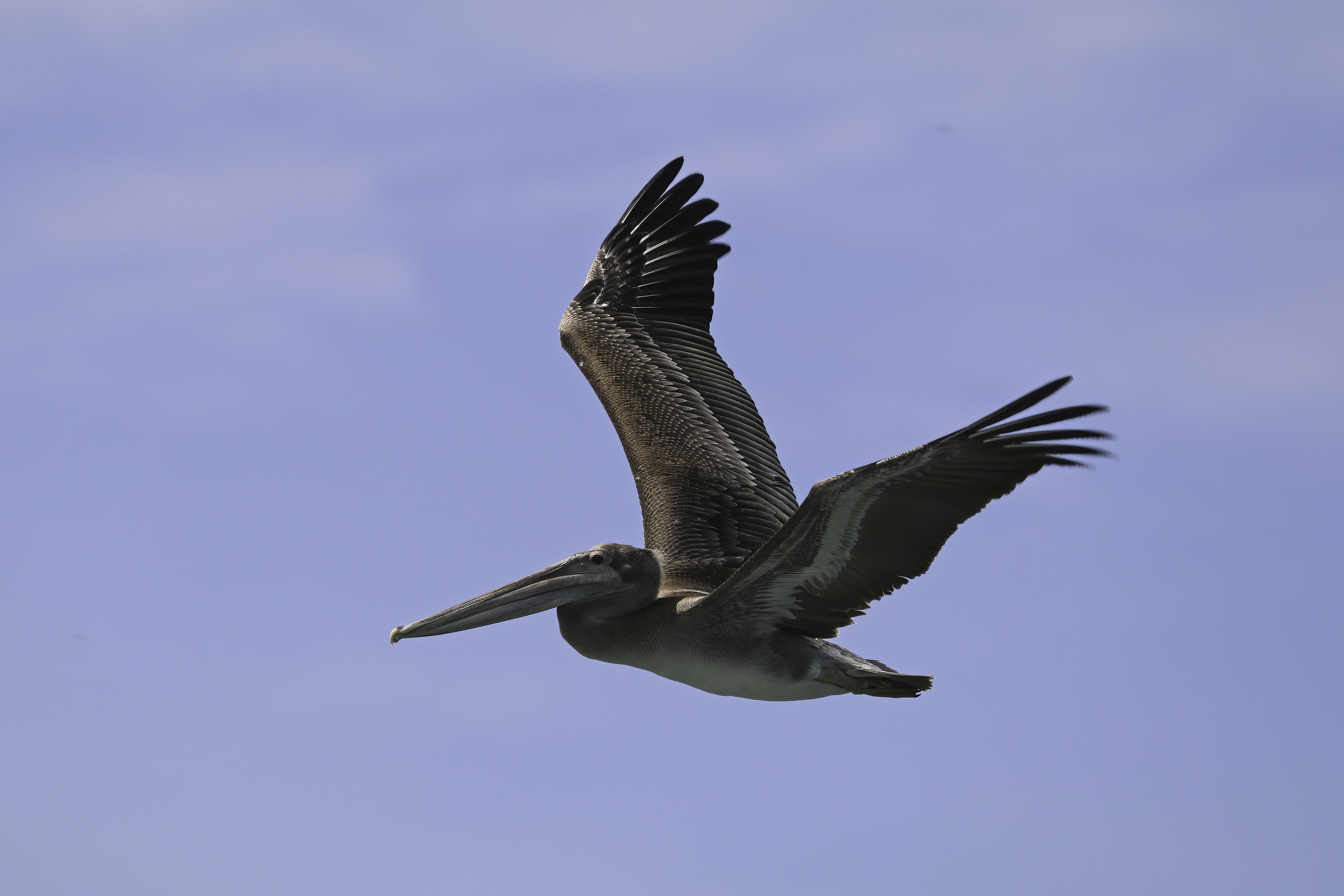 Brown pelican (Pelecanus occidentalis carolinensis) immature in flight, off Boca Chica, Panama